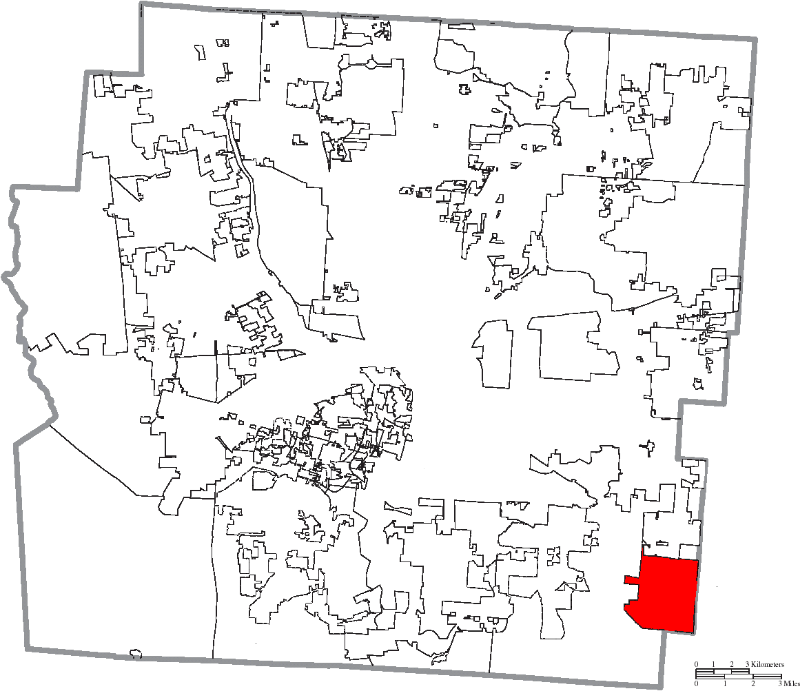 Map of the municipal and township boundaries of Franklin County, Ohio, United States, as of the 2000 census, with the location of the city of Canal Winchester highlighted. Township borders are shown only in unincorporated areas in order to differentiate incorporated and unincorporated areas more clearly. Due to the extremely fractured nature of the county's municipal boundaries, details of boundaries and the identity of township islands may be inaccurate.